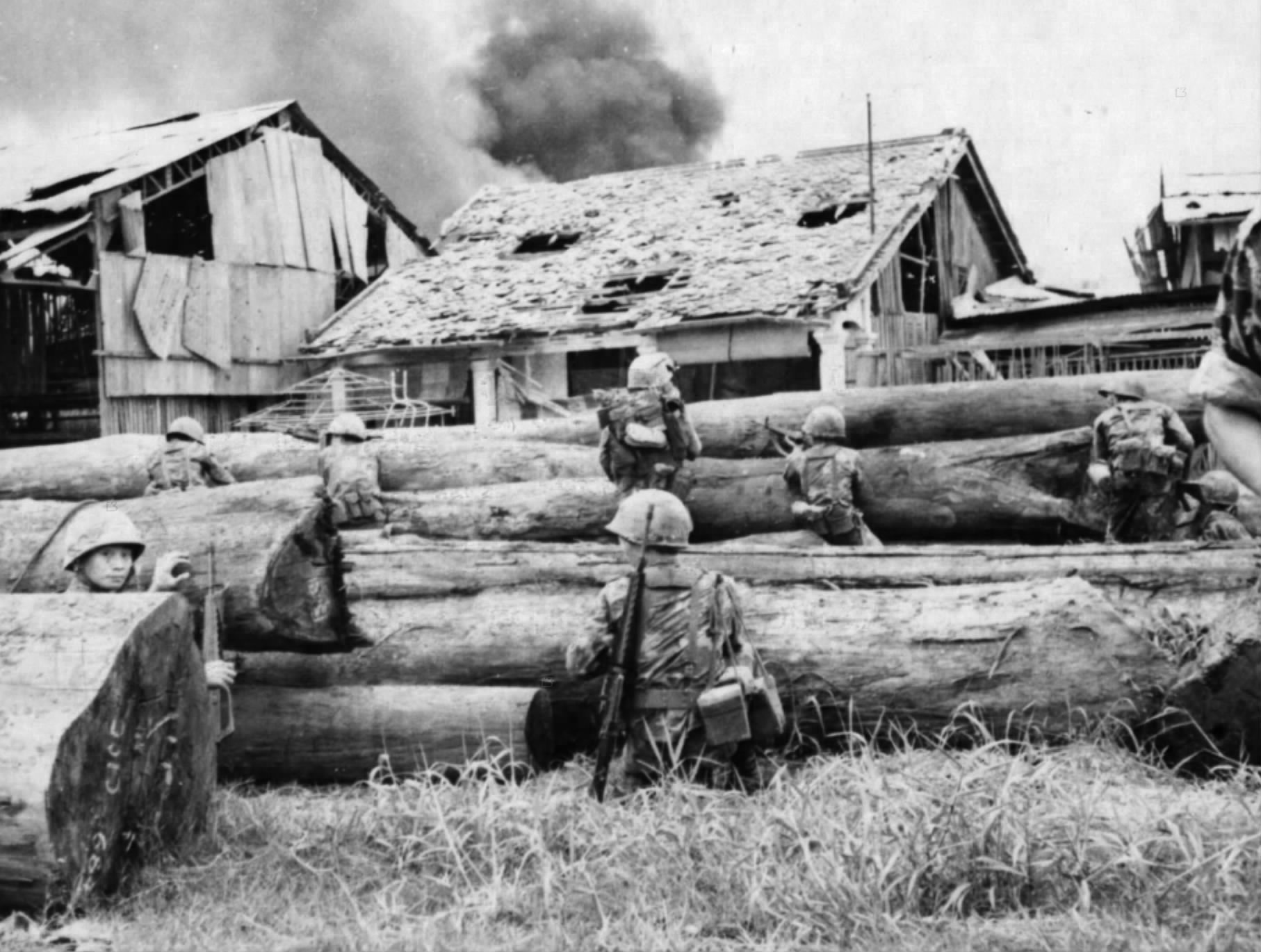 Vietnamese marines take up firing positions in a lumber yard during contact with VC in the Chia Dinh section of Saigon.